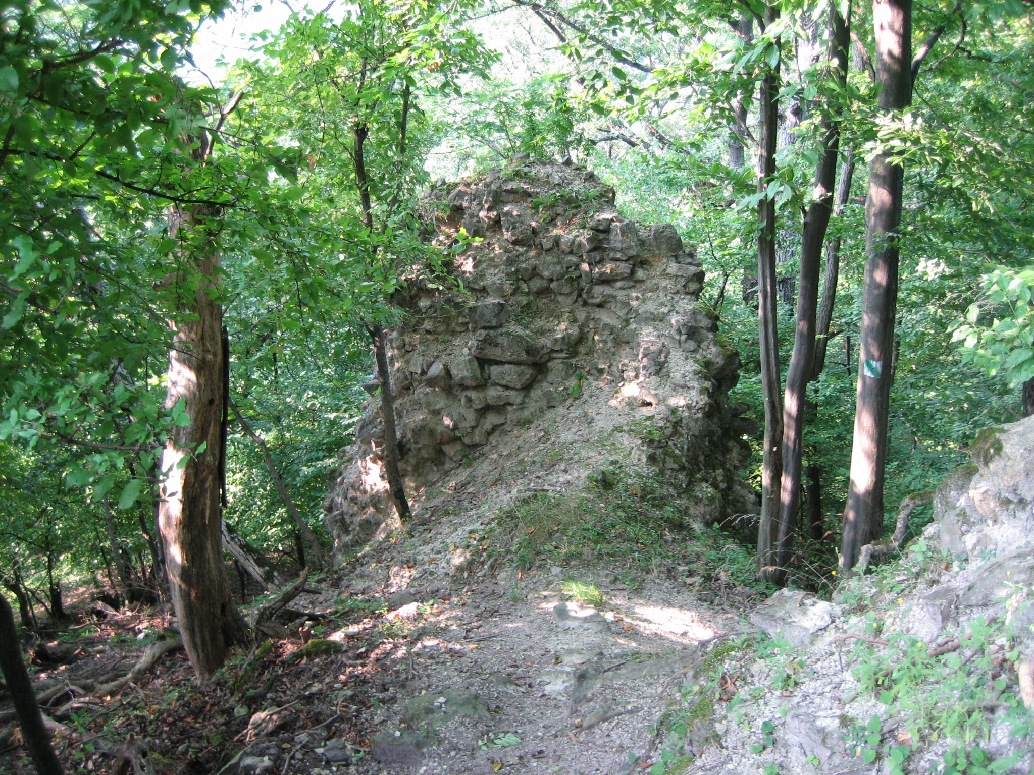 ruins of Balogvár Balogvár romja Vámosbalog (szlovákul Vel'ký Blh) község felett